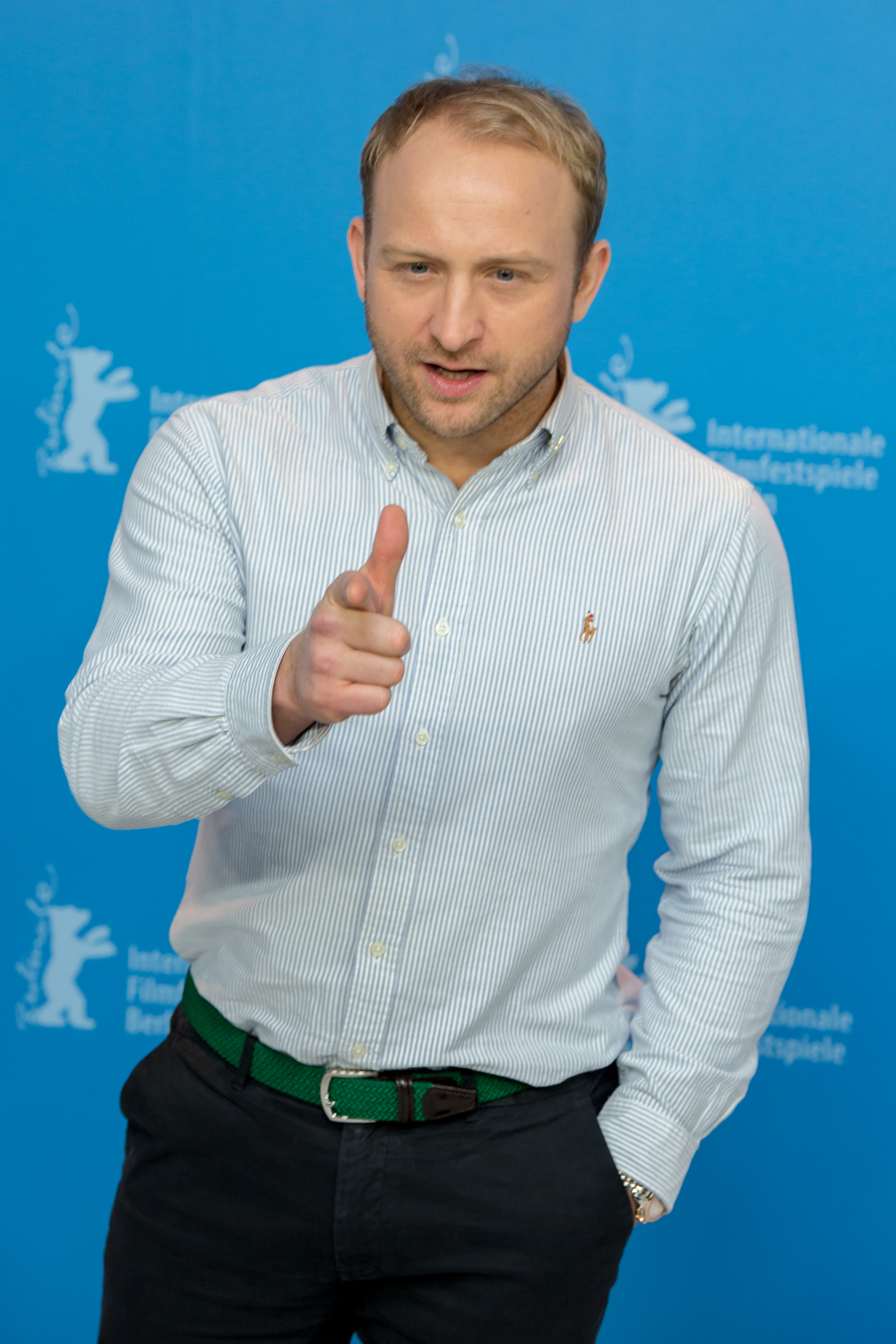 Actor Borys Szyc at the presentation of the polish movie Spoor at the Berlinale 2017